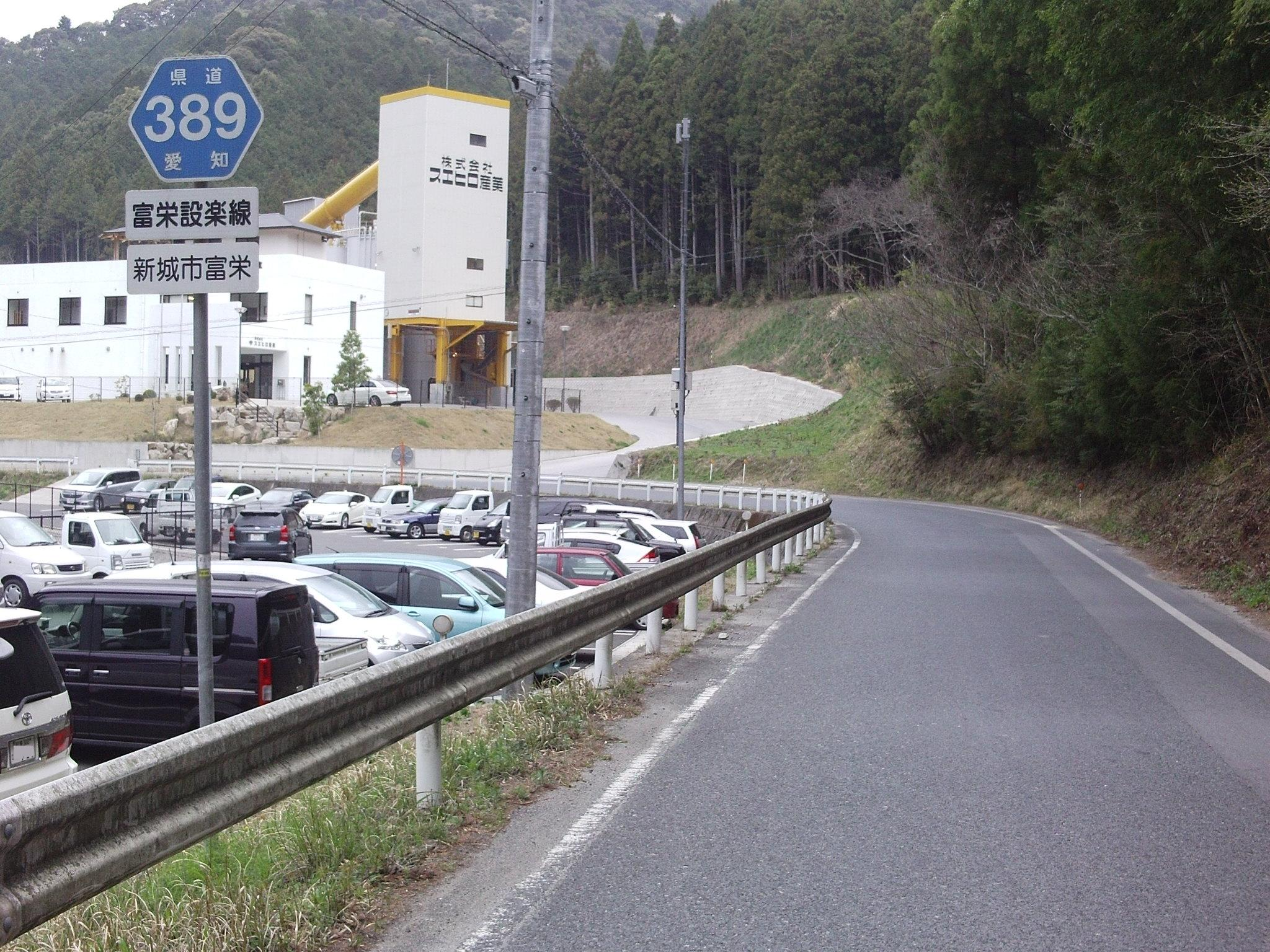 Aichi prefectural road No.389 in Tomisaka, Shinshiro, Aichi.